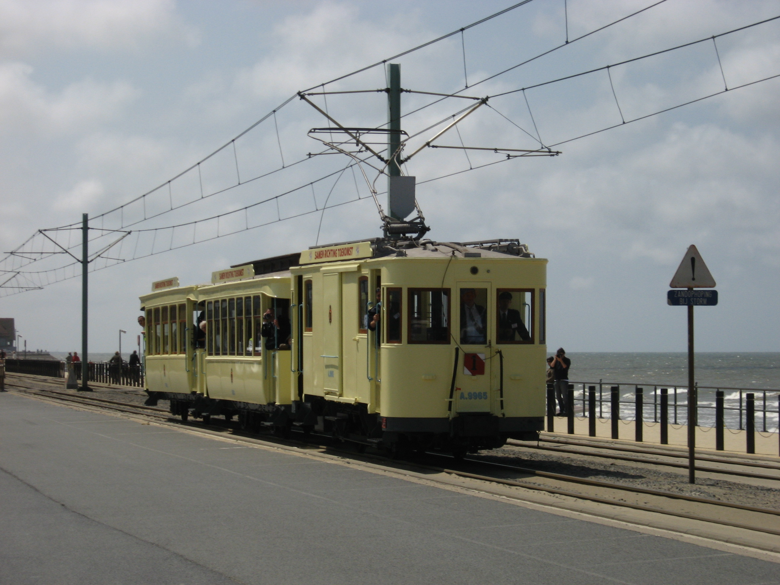 Tramparade 125 years of vicinal railways. Type OB tram and coaches. This is the second tram of the parade.